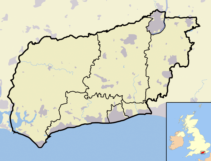 Map of the county of West Sussex, England, United Kingdom